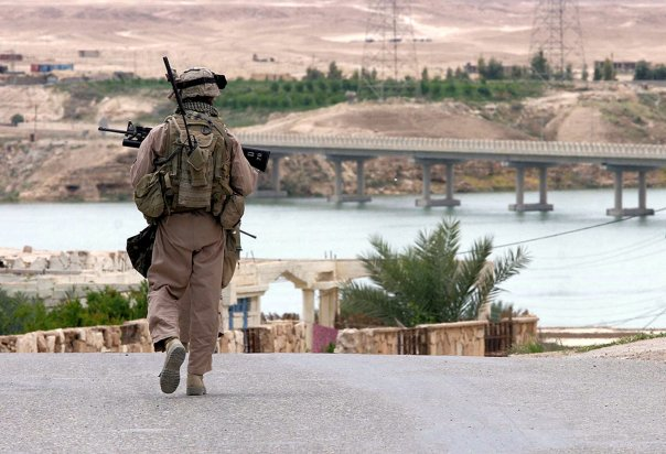 CITY OF RAWA IN IRAQ